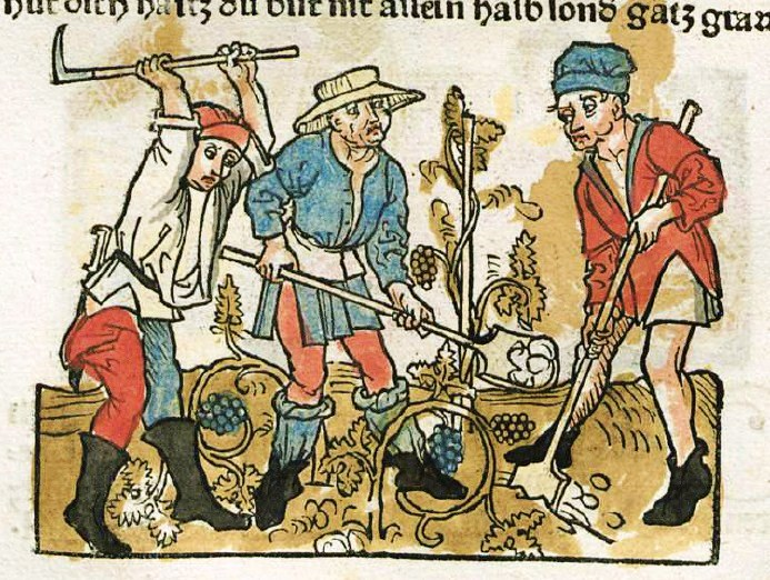 A coloured illustration of "The Farmer and his Sons" from Heinrich Steinhowel's 1501 edition of Aesop's Fables